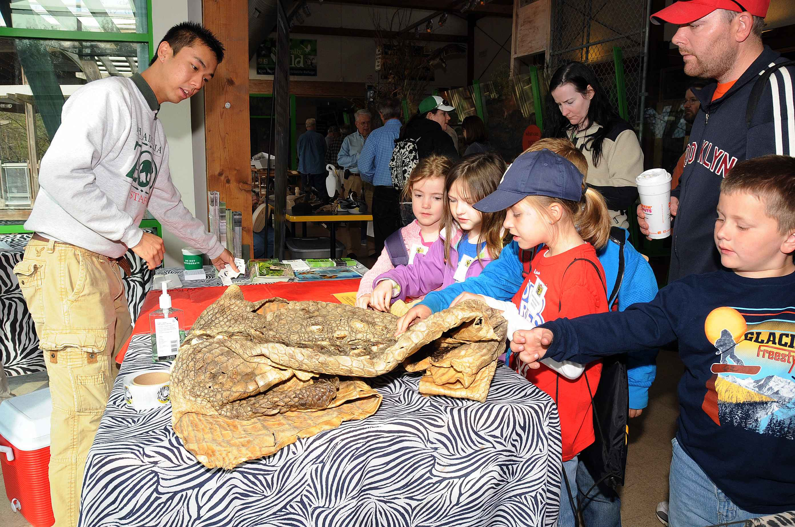 Image title: Children look at animal skins Image from Public domain images website